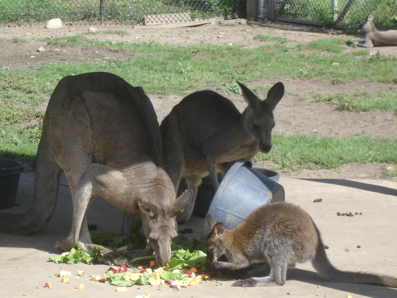 Eastern grey kangaroo (Macropus giganteus) family being fed at the Potawatomi Zoo